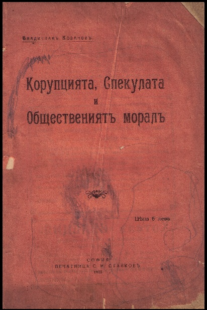 Koruptsiyata